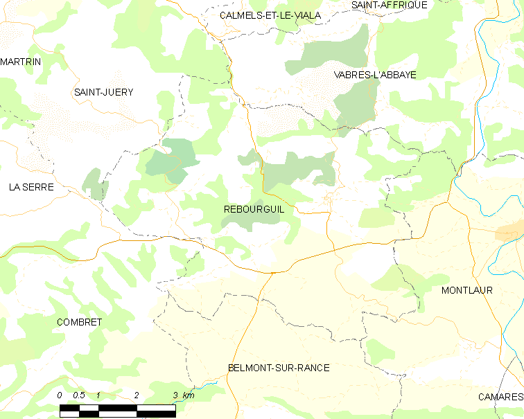 Map commune FR insee code 12195.png - Rebourguil